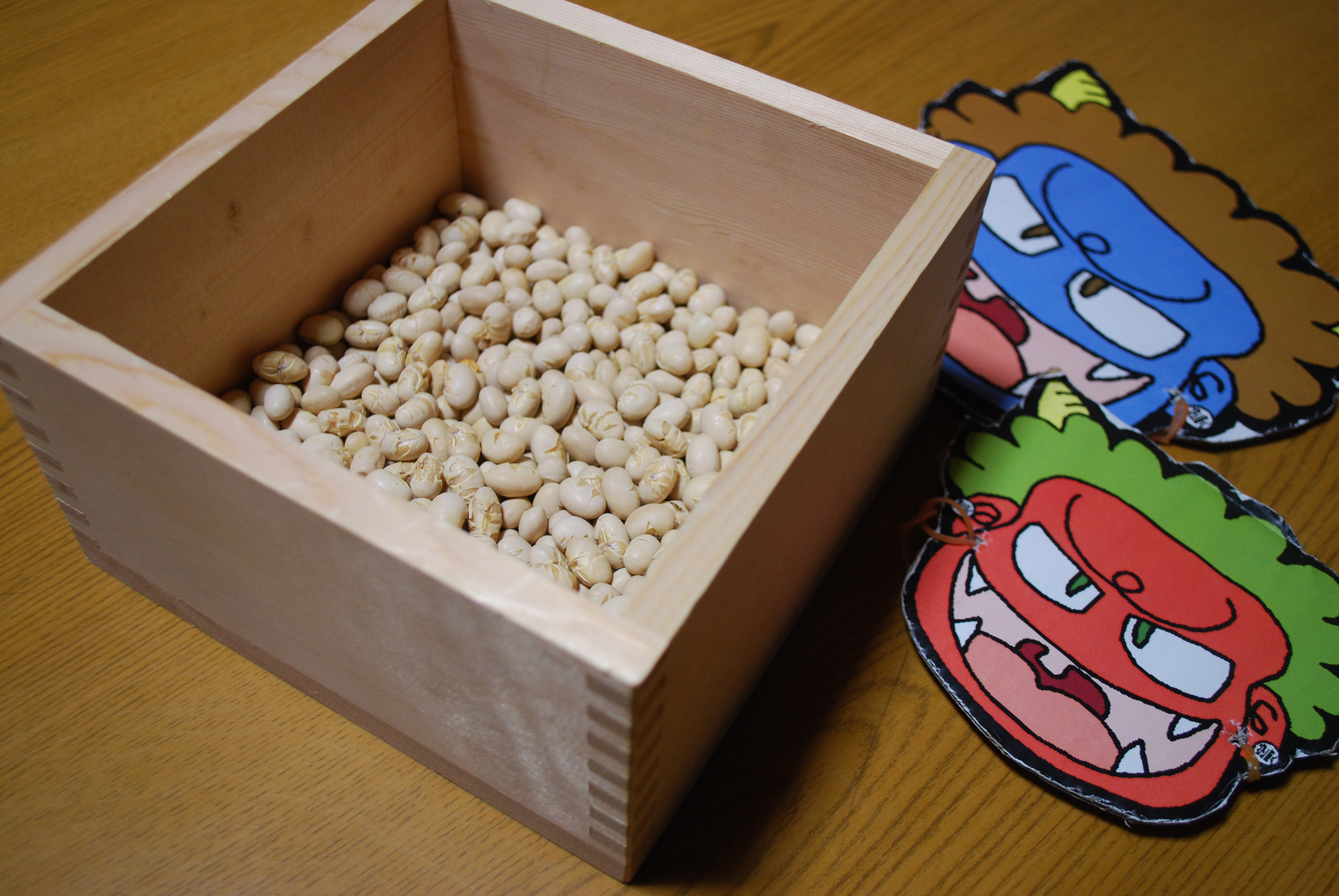 Setsubun.The bean which I parched and the mask of ogre. I throw a bean toward the ogre and send it away outside a house. Katori-city Japan.